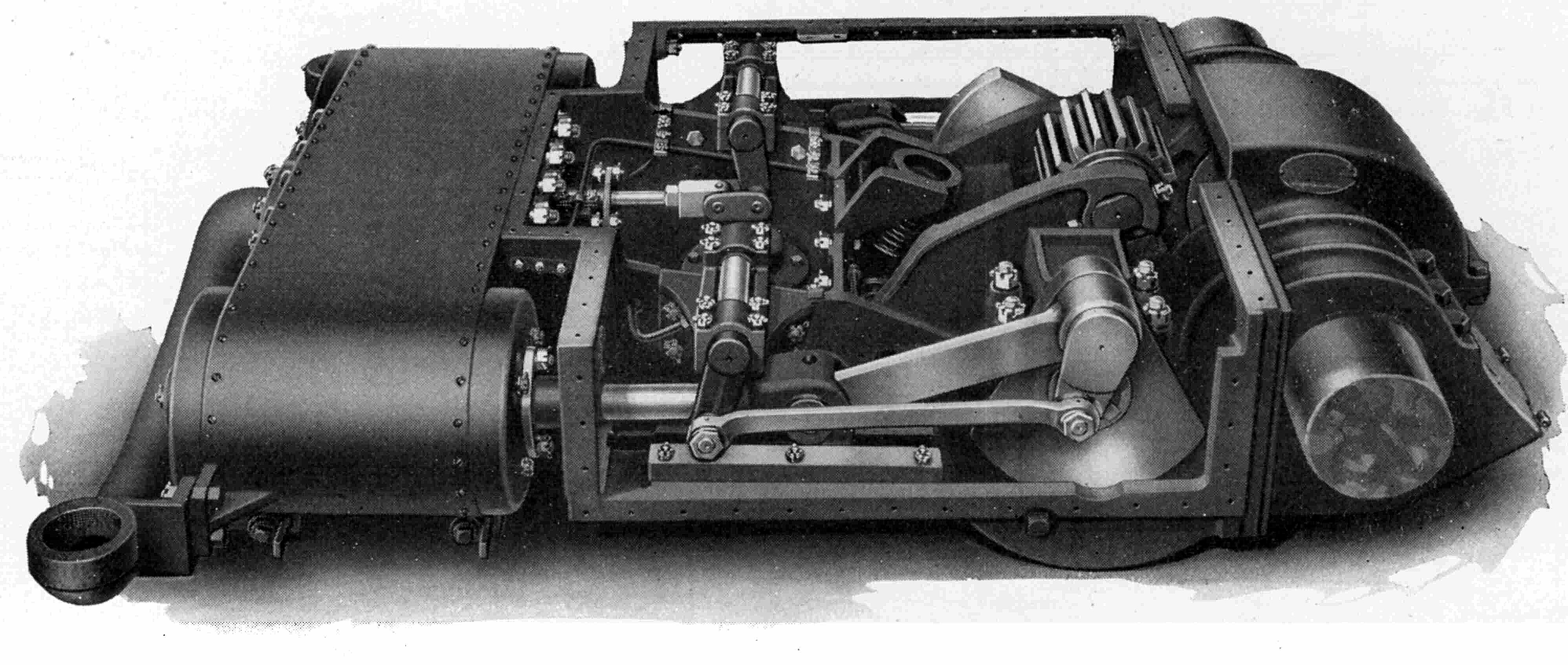 Booster engine for a Steam locomotive (cutaway drawing). This is a Franklin Railway Supply Co. model, one of the most common.